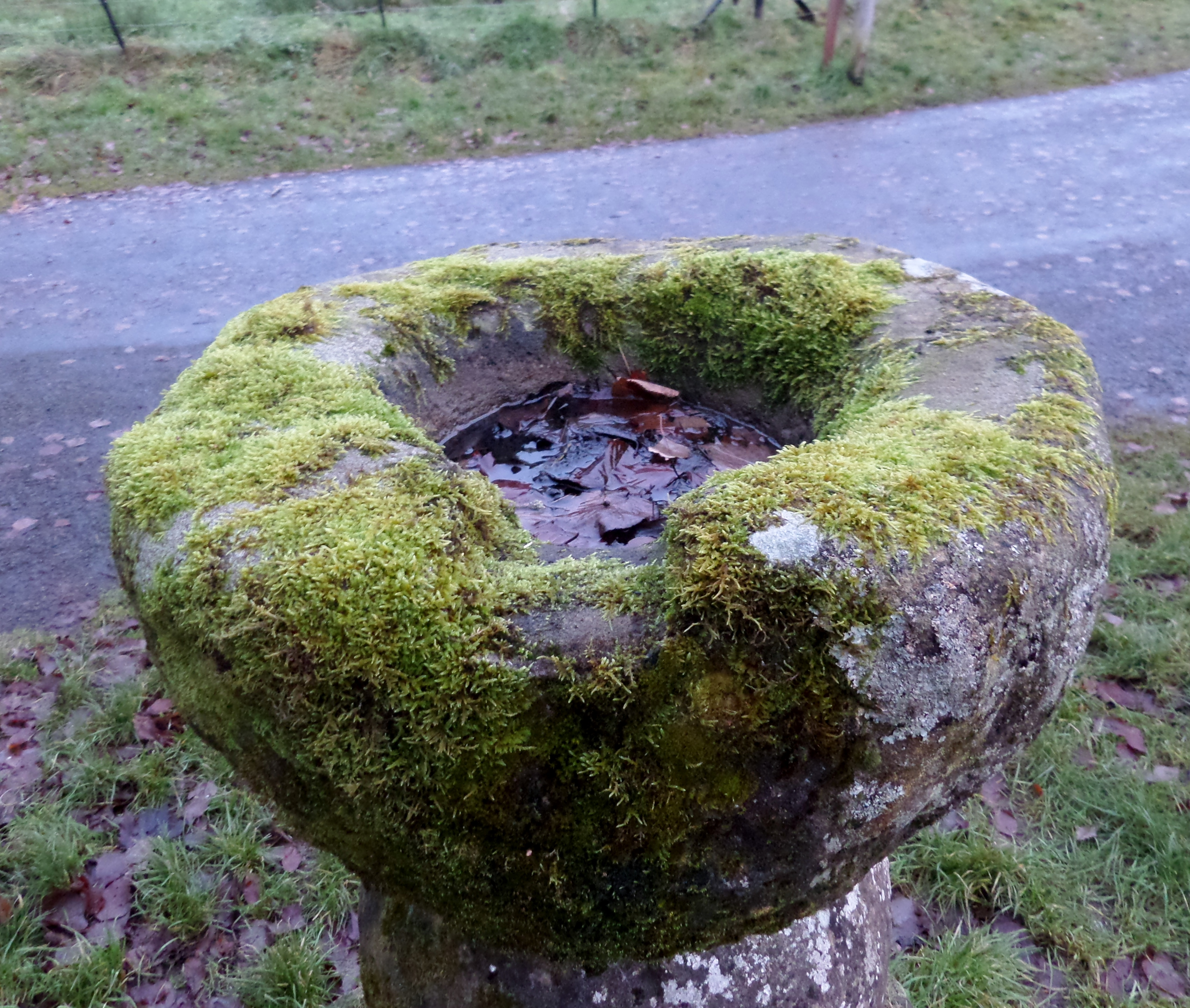 One of three Stoups of unknown use and origin, Greenbank Gardens, Clarkston, Glasgow, Scotland.